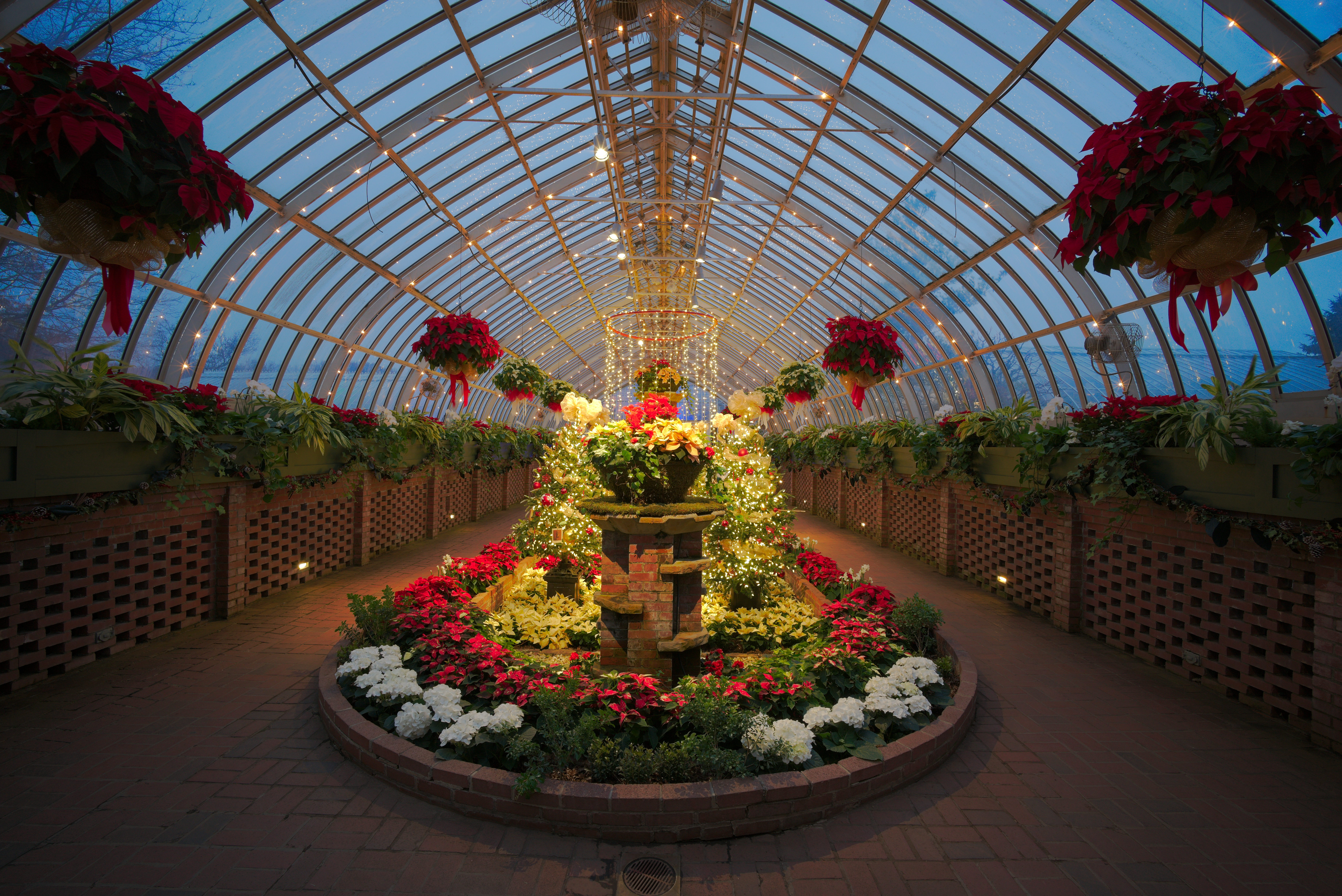 The Sunken Garden at the Phipps Conservatory and Botanical Gardens during the winter flower show of 2015.